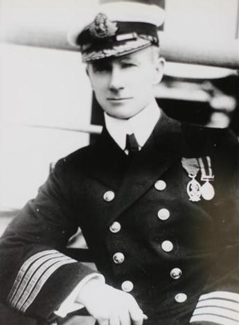 Captain Athur Rostron of the RMS Carpathia